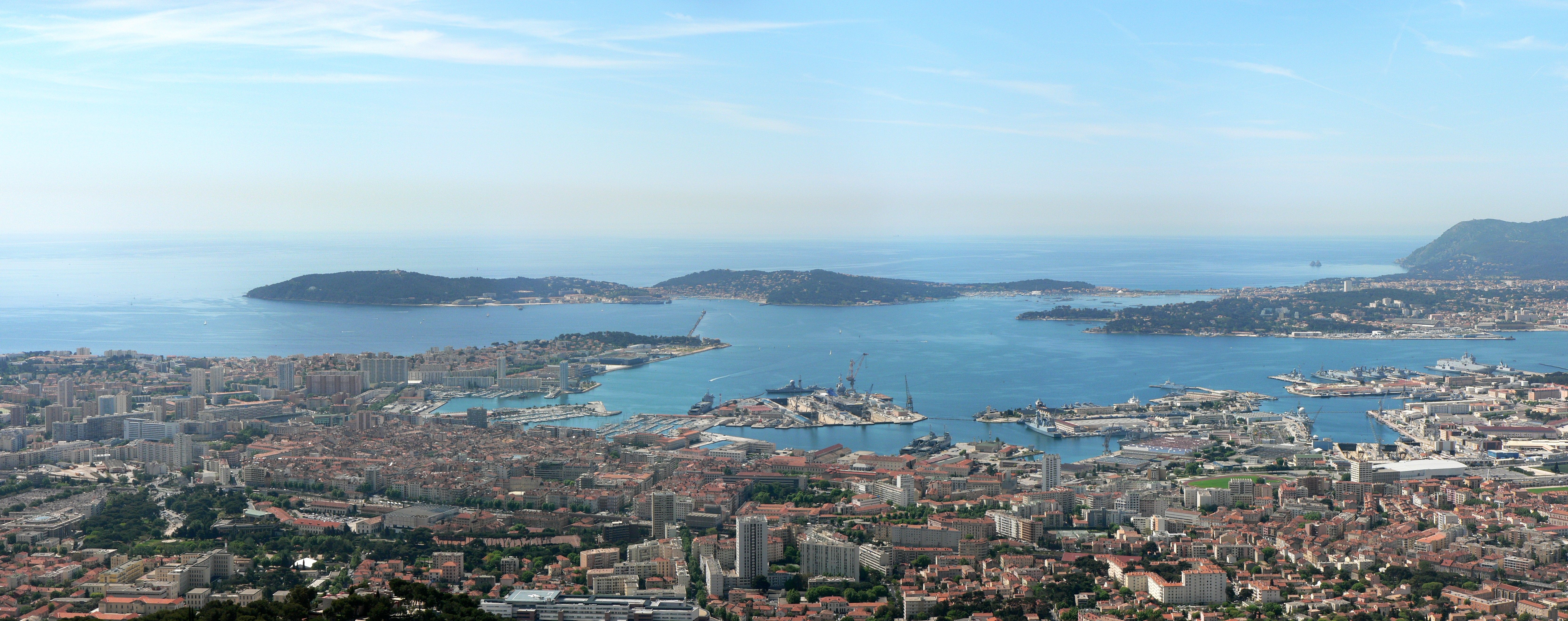 Toulon and its military harbour, seen from Mount Faron